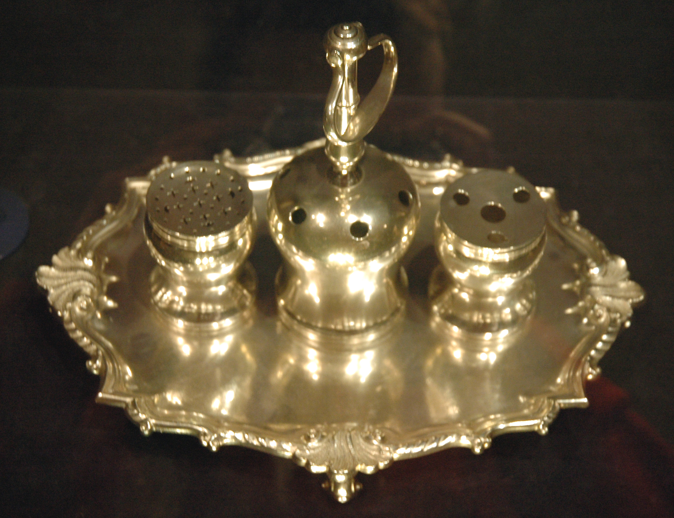 The Syng inkstand, an inkstand made by Philip Syng with which the Declaration of Independence and Constitution were signed, on display at Independence Hall in Philadelphia.